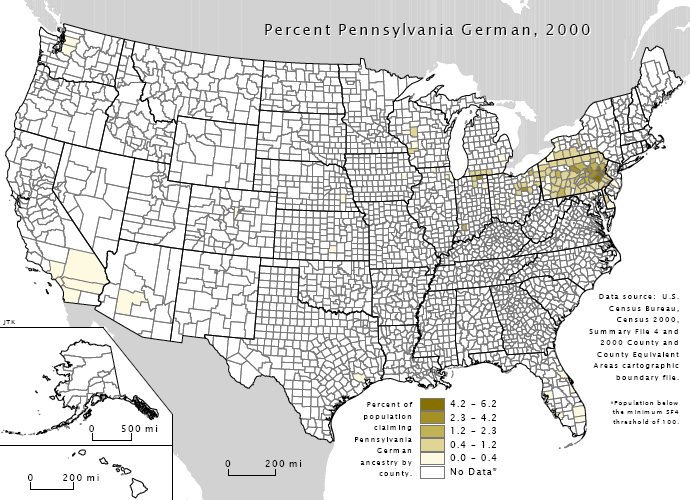 Diagram indicating Pennsylvania Dutch (Pennsylvania German) settlement in the United States. Image as based on the census 2000 by the U.S. Census Bureau. Badagnani (talk) 08:24, 23 May 2009 (UTC)